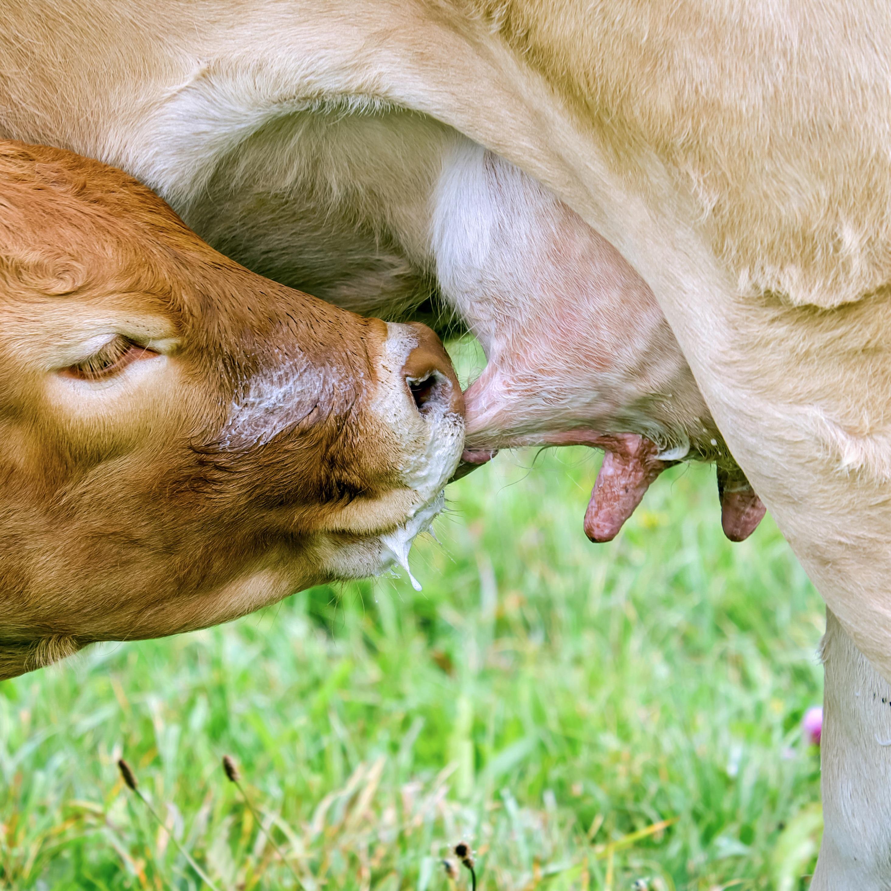 A baby calf suckling on its mother.